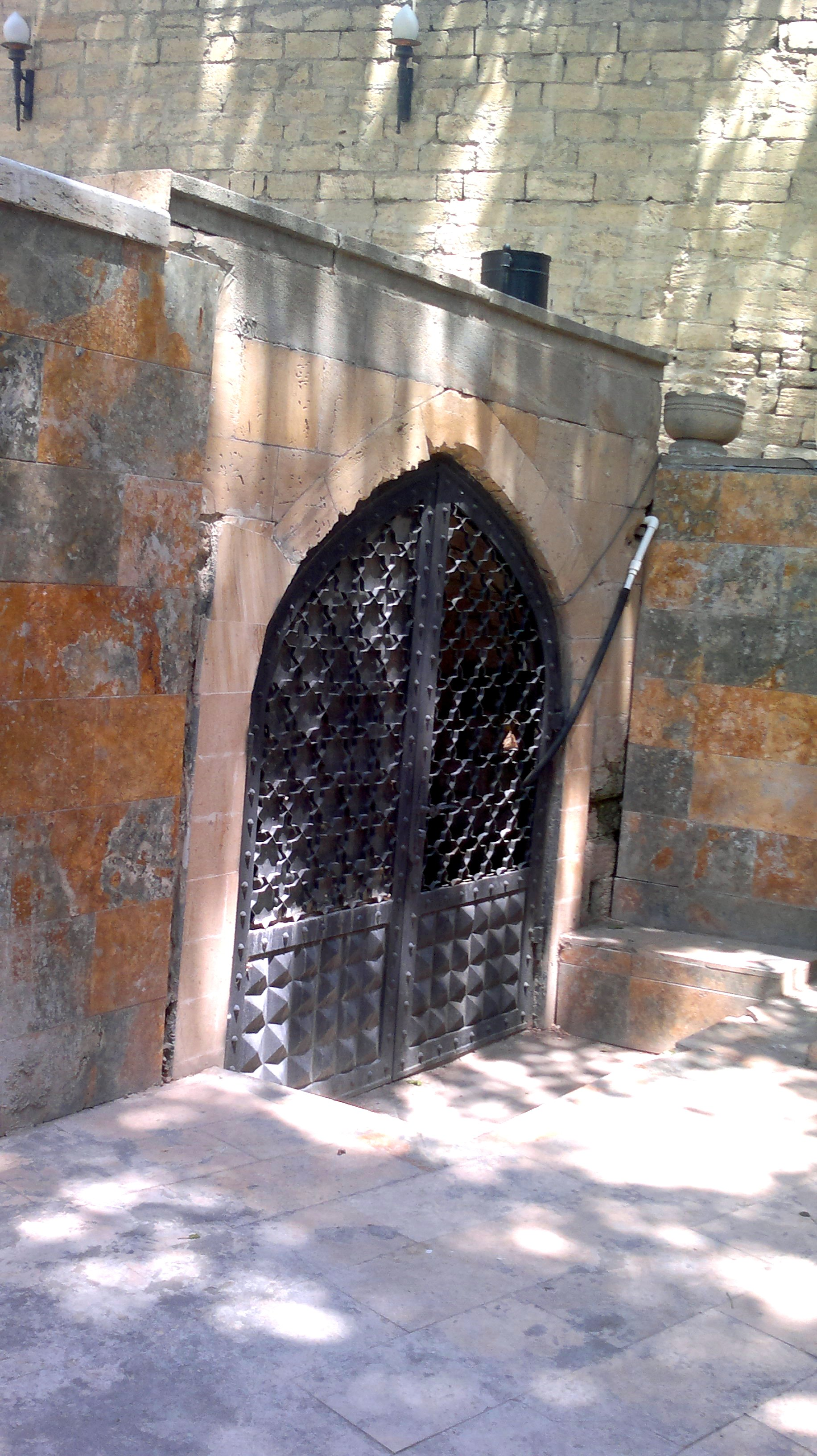 Ovdan of Shirvanshahs in Baku, Azerbaijan. 15th century.